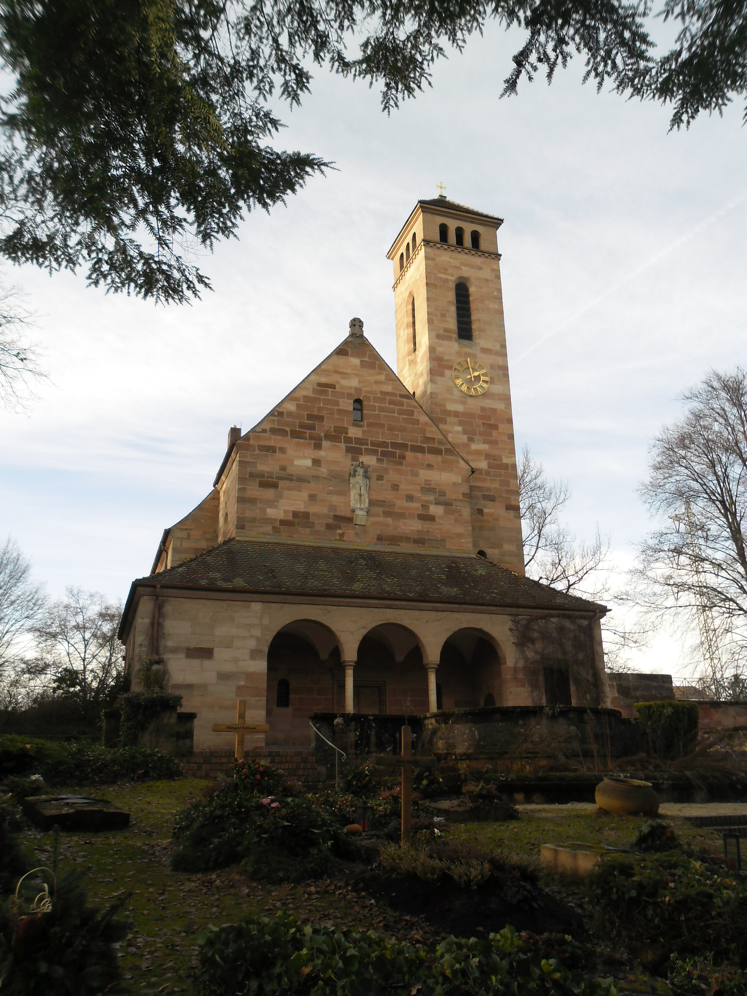 The Philip Church in Rummelsberg was created in 1927 under the direction of Christian Ruck